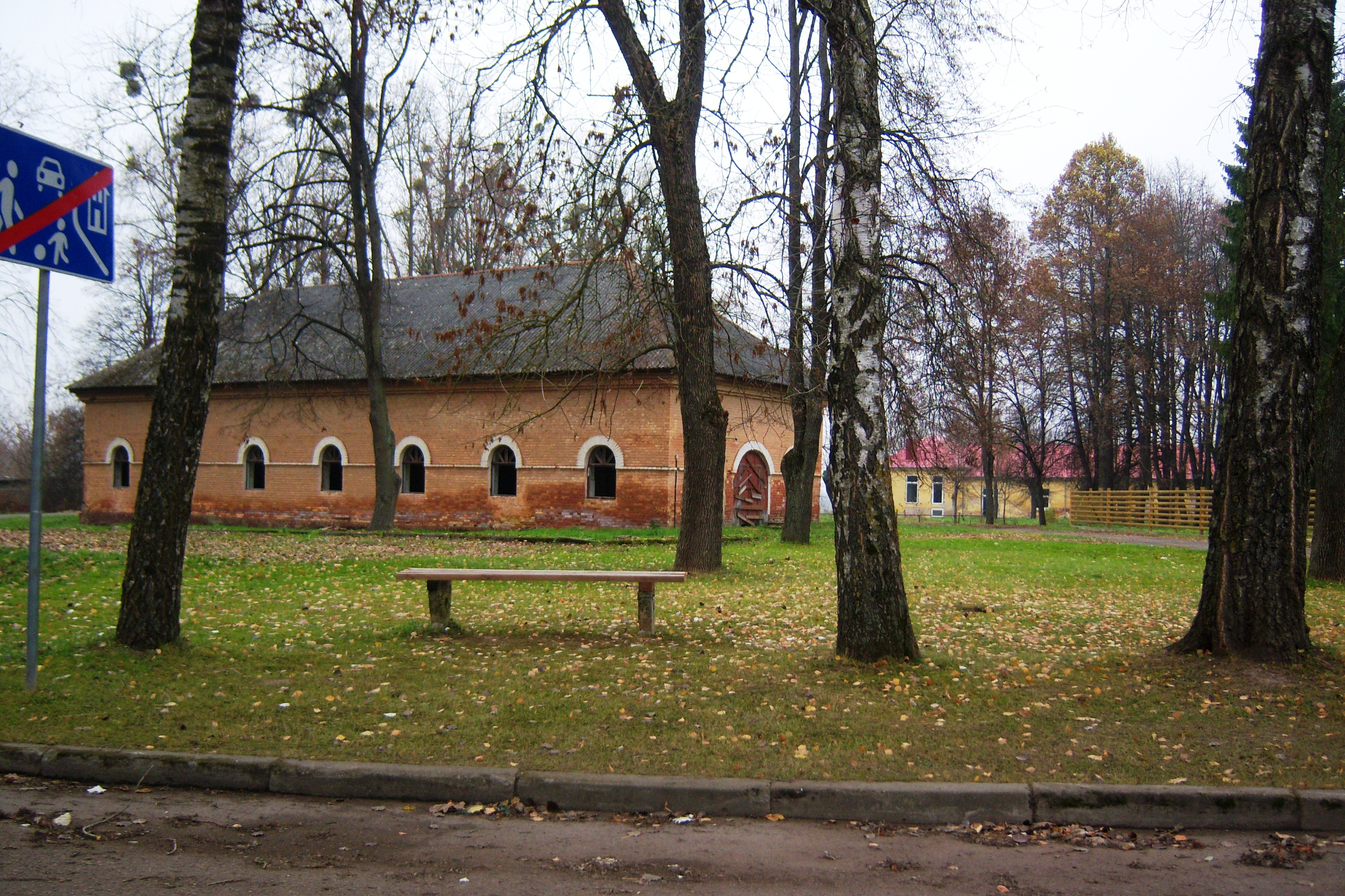 The former stables in Linksmakalnis, Kaunas District. Lithuania